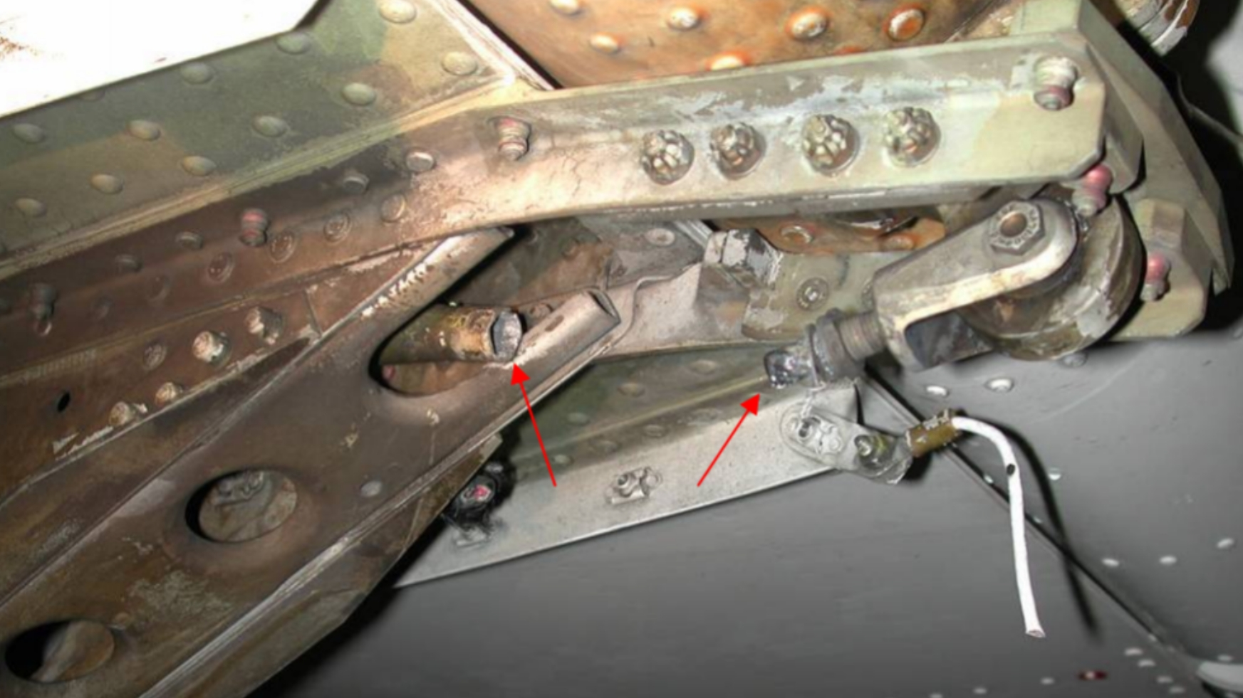 Kato Air LN-HTA damage